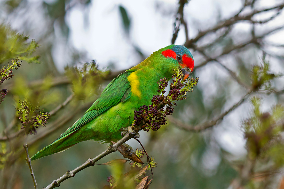 A Must Lorikeet feeding on desert Ash fruit at Kangaroo Flat, Bendigo, Victoria, Australia.